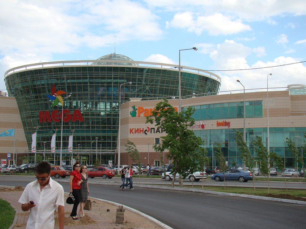 Shopping center "Mega Center Astana"